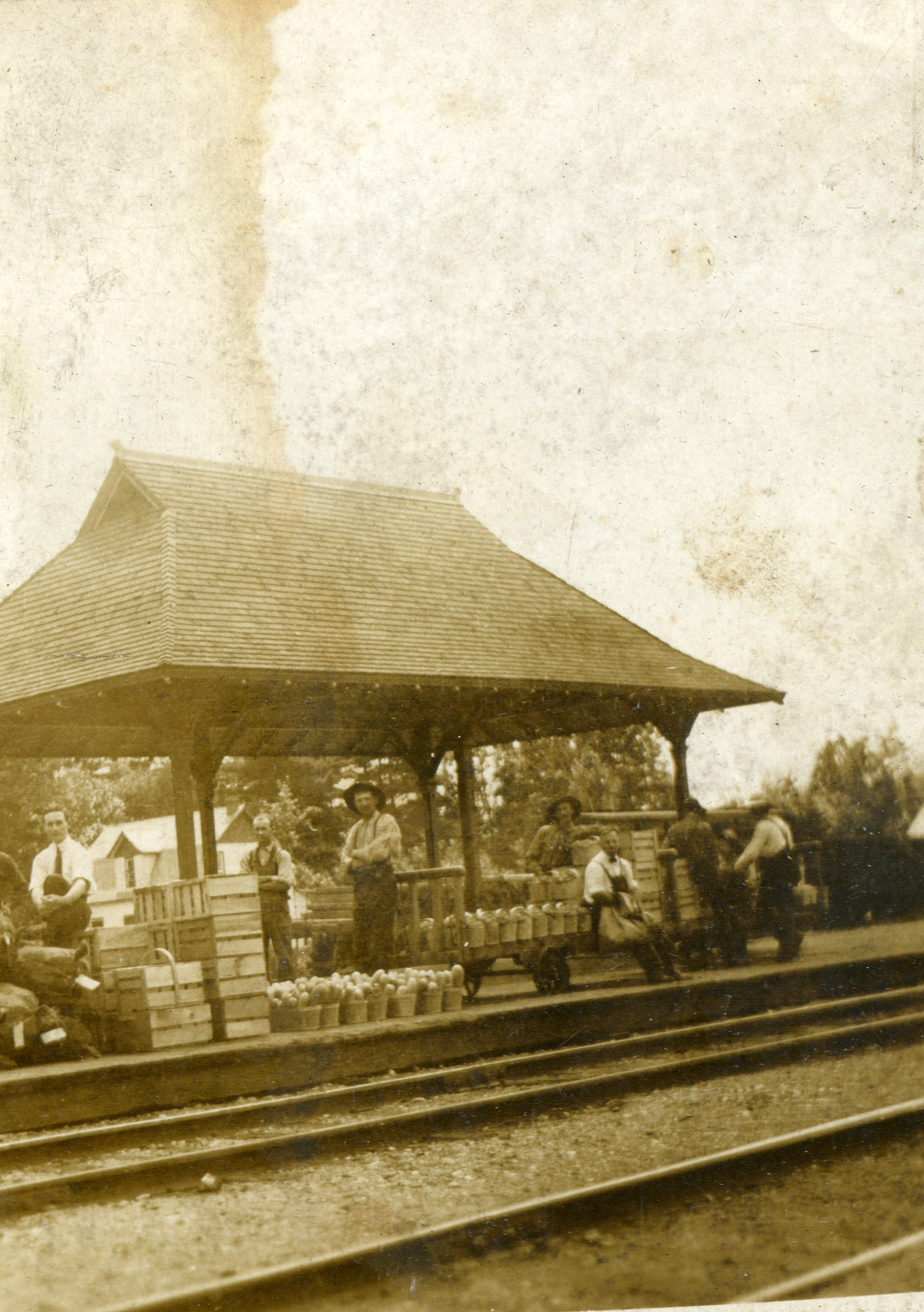 Historical photographs of Beamsville Ontario 1917-1950 including Peckham Orchards, and related family, personal papers and School information.